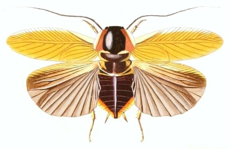 Theganopteryx tricolor - female